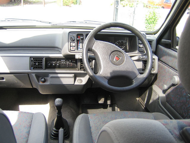 The cockpit of a 1994-95 (M reg) Rover Metro Rio (called the Rover 100 series outside UK)